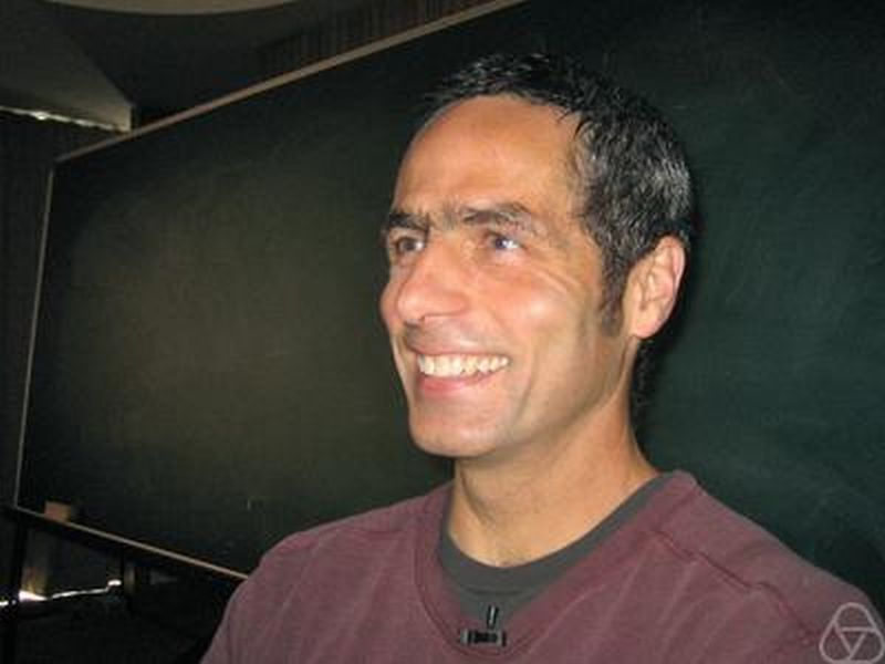 Michael J. Hopkins, 80. Birthday of Michael Atiyah, Edinburgh 2009